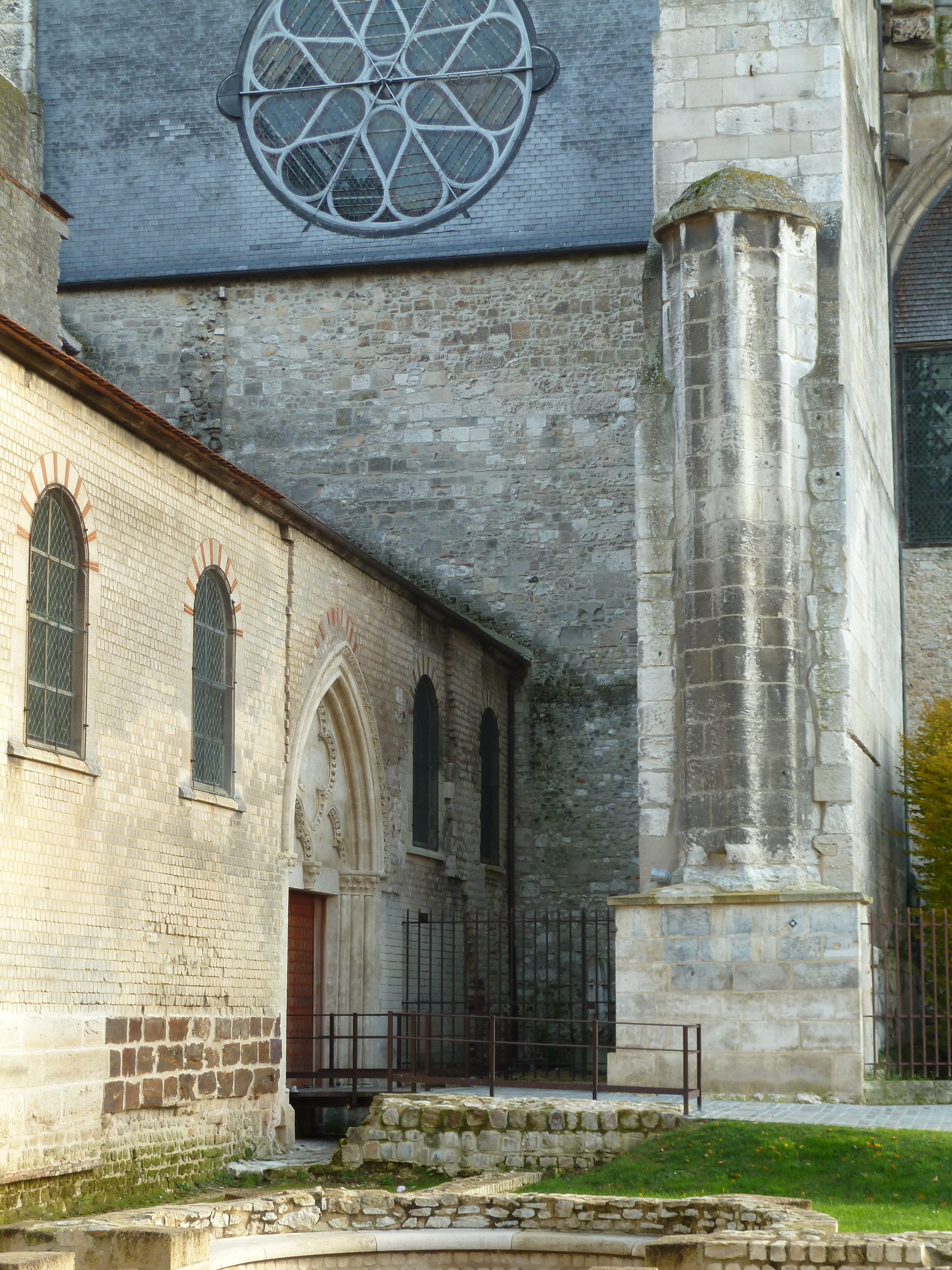 Beauvais (département of Oise, Picardie région, France). Church of Notre-Dame de la Basse Oeuvre (Xth century), former cathedral of Beauvais, partially destroyed for the construction of the Gothic cathedral, which remained unfinished. South facade.